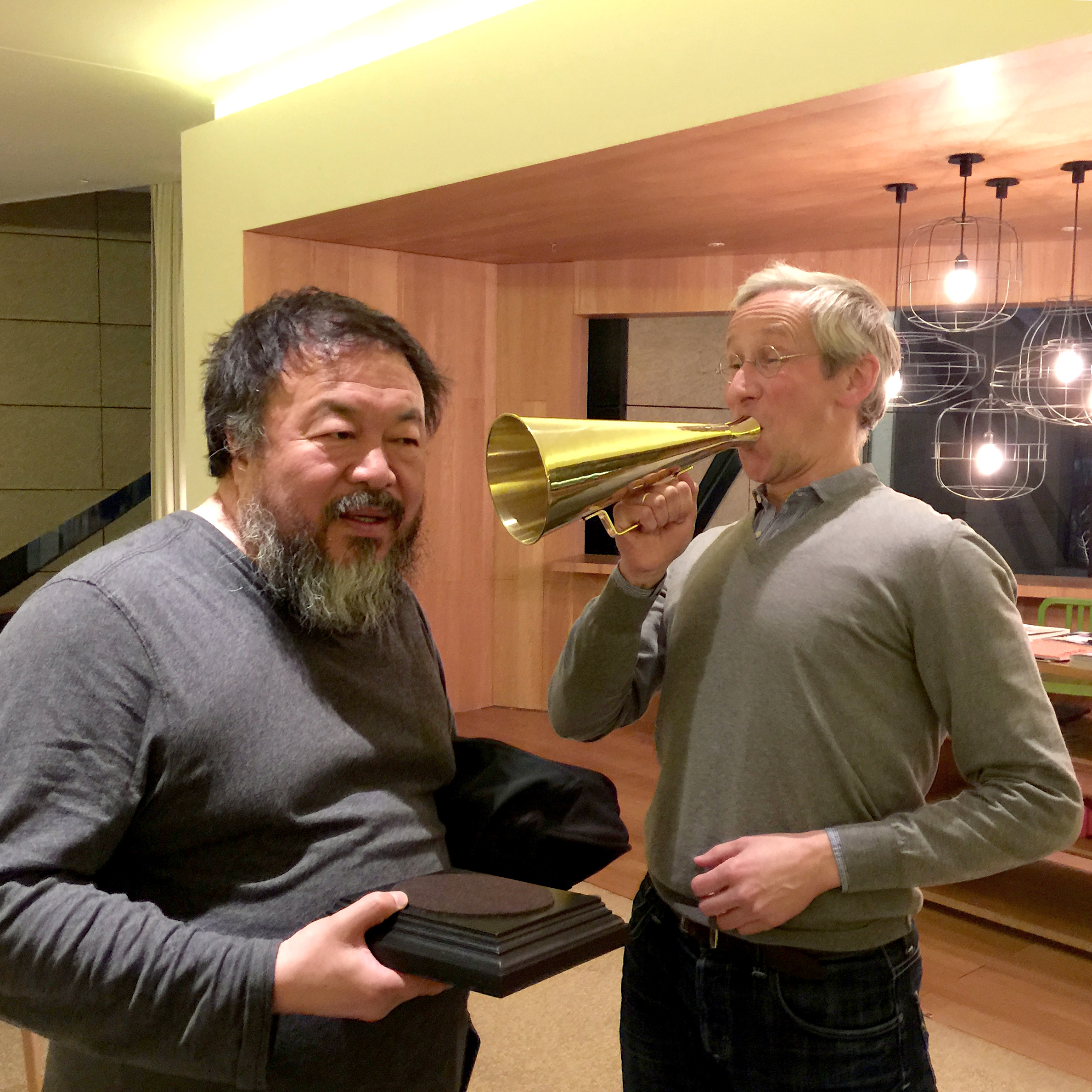 Rendel demonstrating the K26 Film Award prototype to Ai Wei Wei